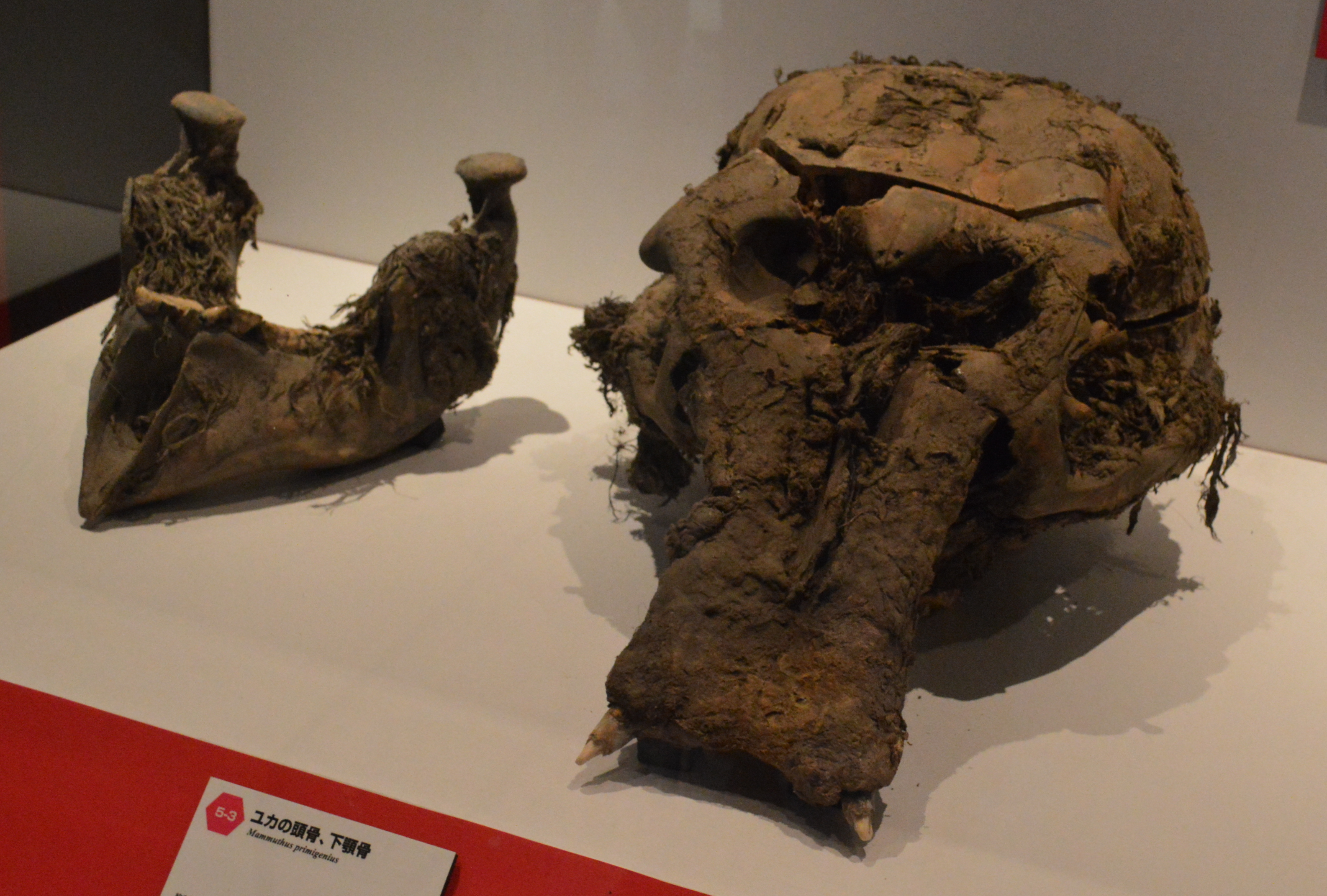 Yuka's skull and lower jaw as shown at Frozon Woolly Mammoth Yuka Exhibit in Yokohama, Kanagawa, Japan in Summer 2013. The cut on the skull was created when Yuka's brain was extracted in 2012. Yuka's brain was not sent to Japan for the exhibition; it remains in Russia for further studies by Russian scientists.